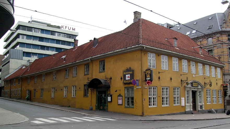 Stortorvets Gjæstgiveri, Grensen 1, Oslo, Norway. Built ca. 1700. Protected by law.